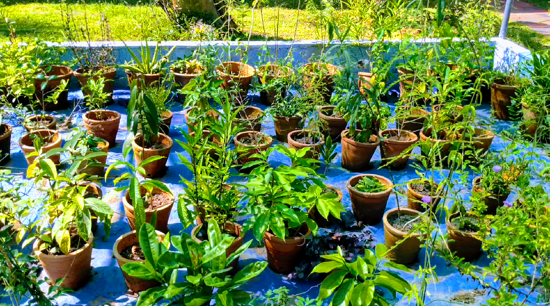 Herbal Garden in GLPS Kadampanad, Bhagavathipuram, Aruvikkara